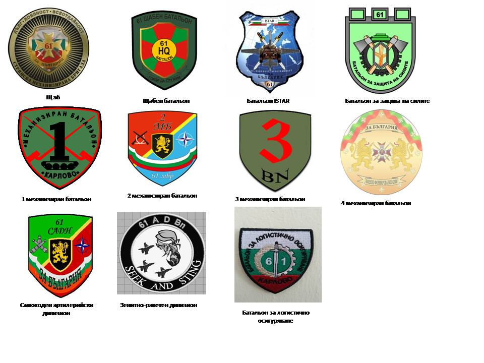 logos units